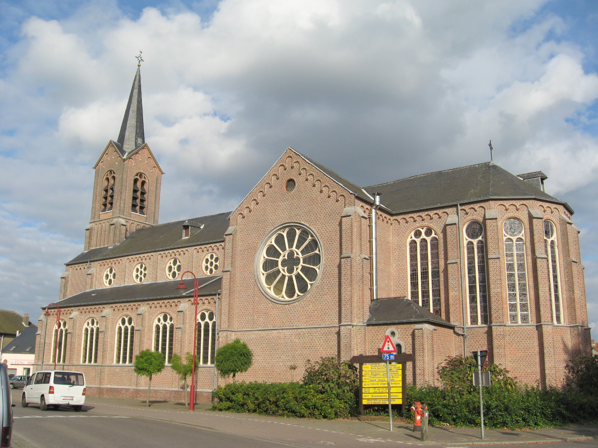 Church of Saint Anne in Tongerlo, Westerlo, Antwerp, Belgium